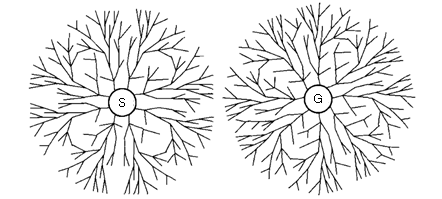 example for bidirectional search